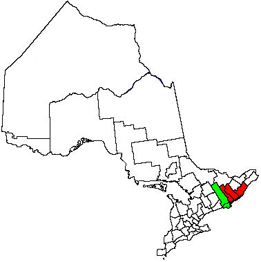 Location of counties that border the Thousand Islands.